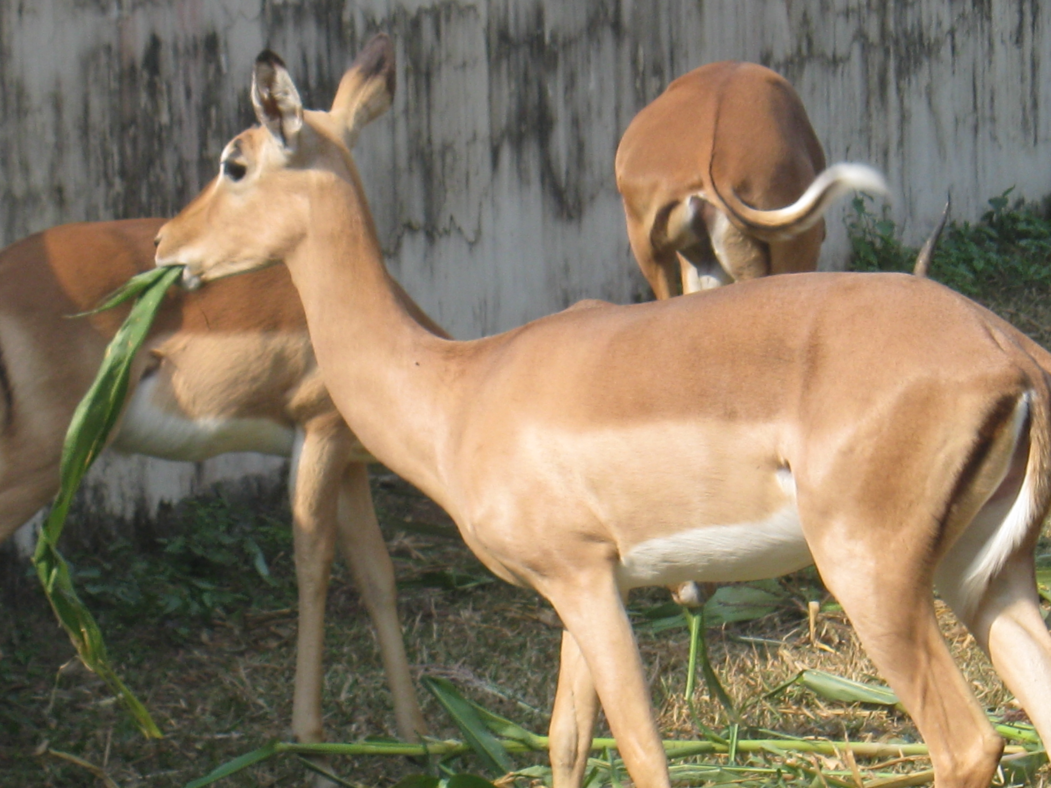 This shot I take from Dhaka Zoo.